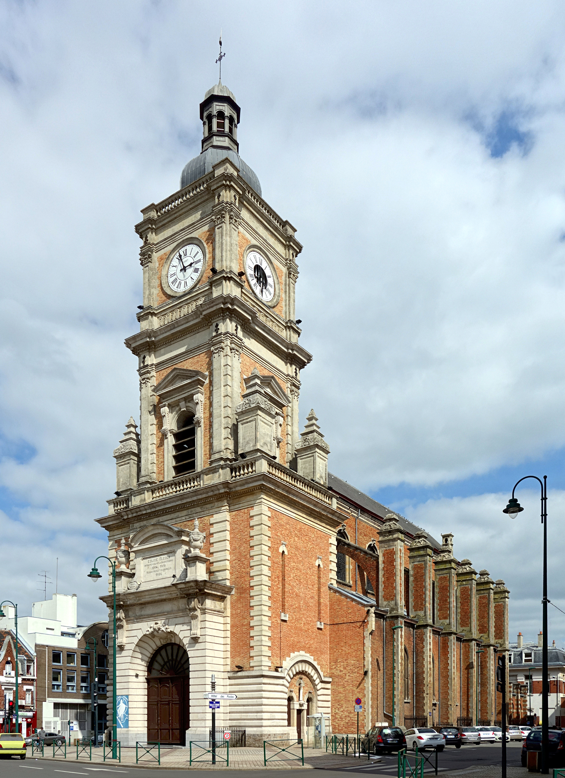 Saint-Léger Church in Lens (France).